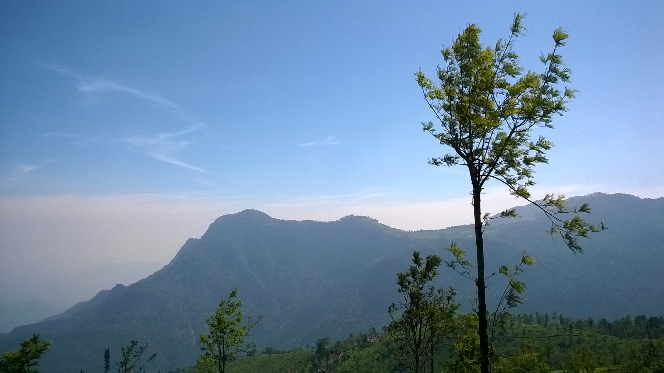 The picture taken in ooty... Excellent view of hills